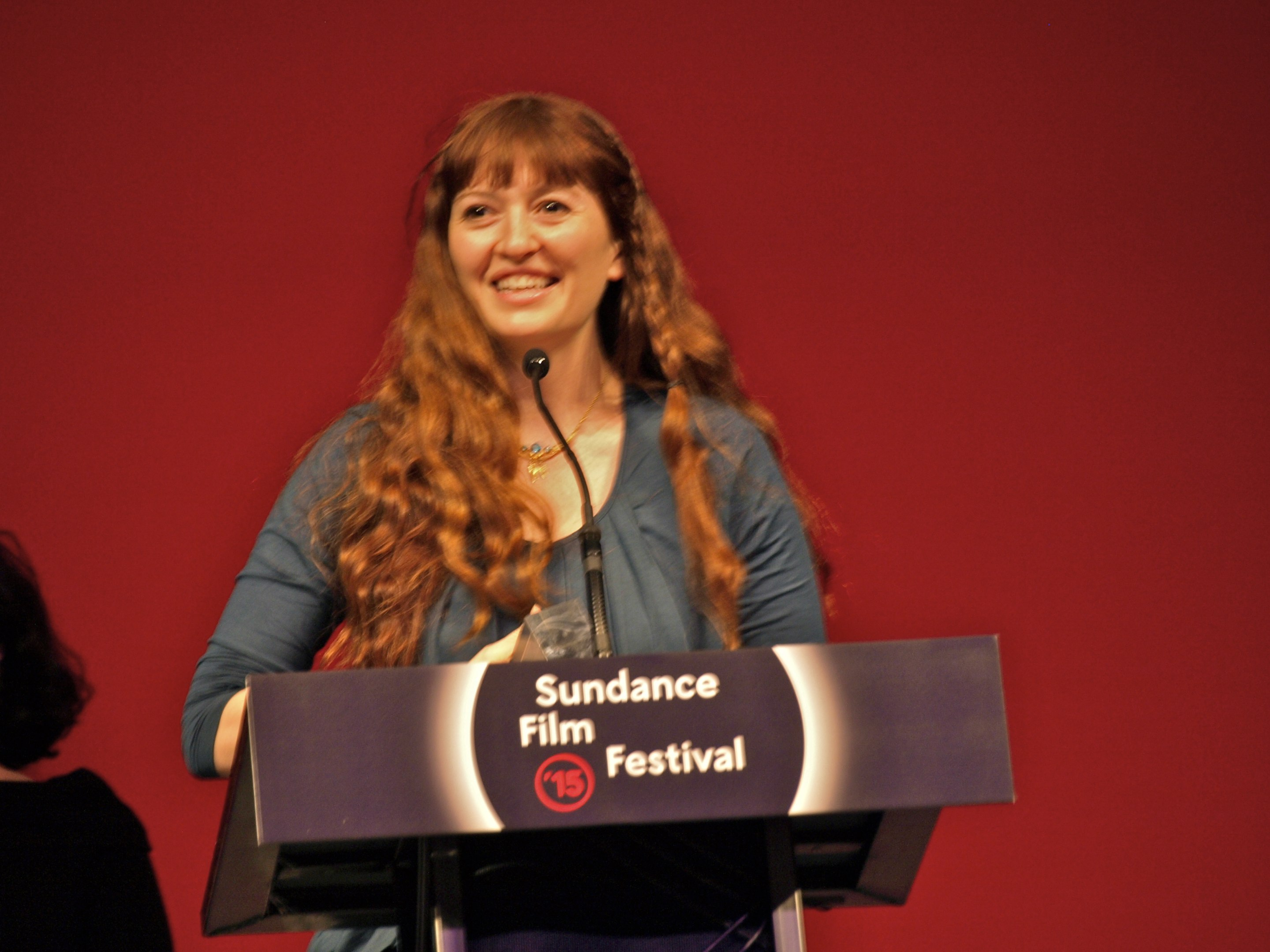 Marielle Heller at Sundance 2015 Awards